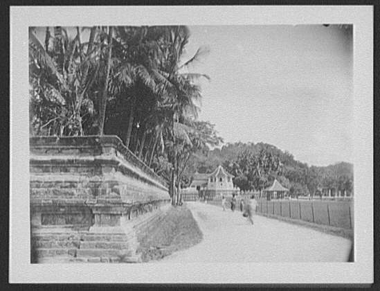 Title: Kandy - street leading to Dalada Malagawa - Temple of the Sacred Tooth Physical description: 1 photographic print : gelatin silver ; 8 x 10 in. or smaller. Notes: Published as halftone in Harper's Weekly, 1895.; Gift; Colorado Historical Society; 1949.; Forms part of: Jackson, William Henry, 1843-1943. World's Transportation Commission photograph collection (Library of Congress).; Photographic print made by LC from Jackson's vintage film negative.